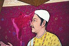 Image of the legendary musician Tansen. Most likely an imaginary likeness, created in the Mughal style well after Tansen's death.